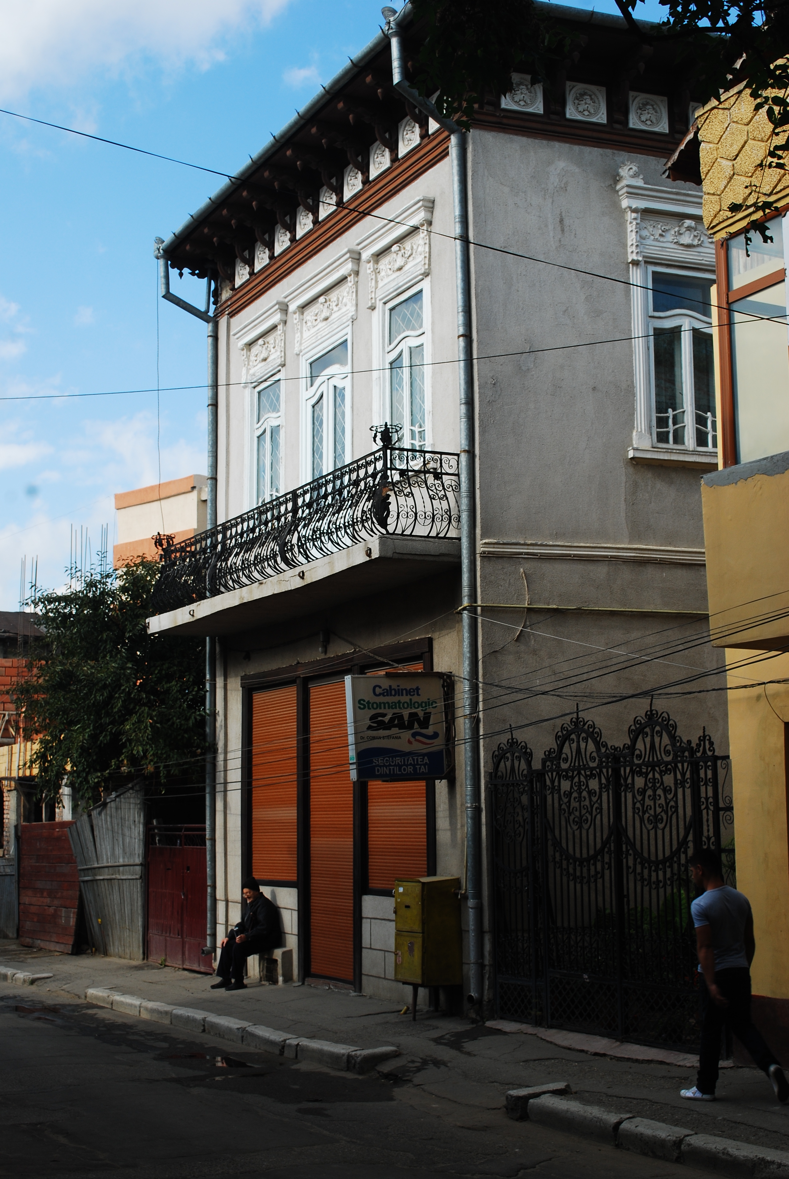 Historical building on Griviţei street, no. 9, Buzău, Romania